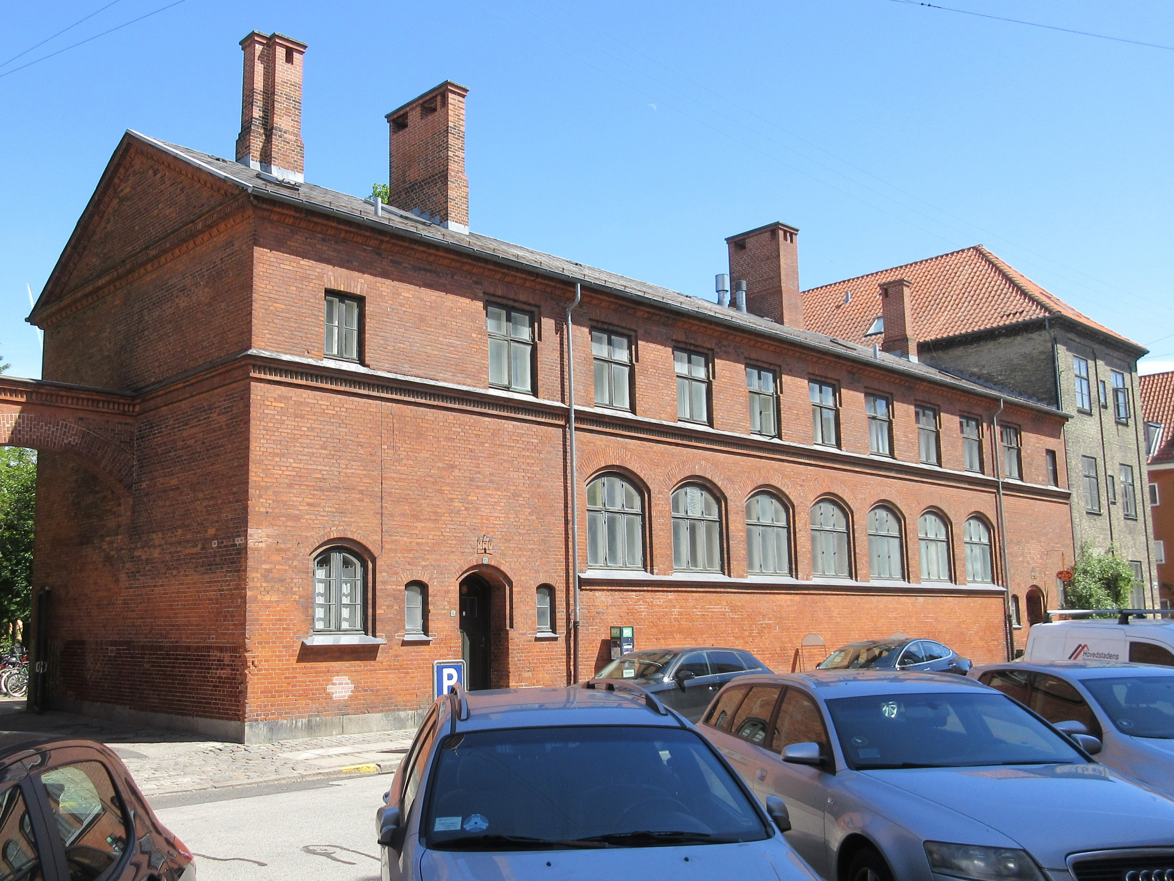 Sofiegade Public Baths in Copenhagen, Denmark